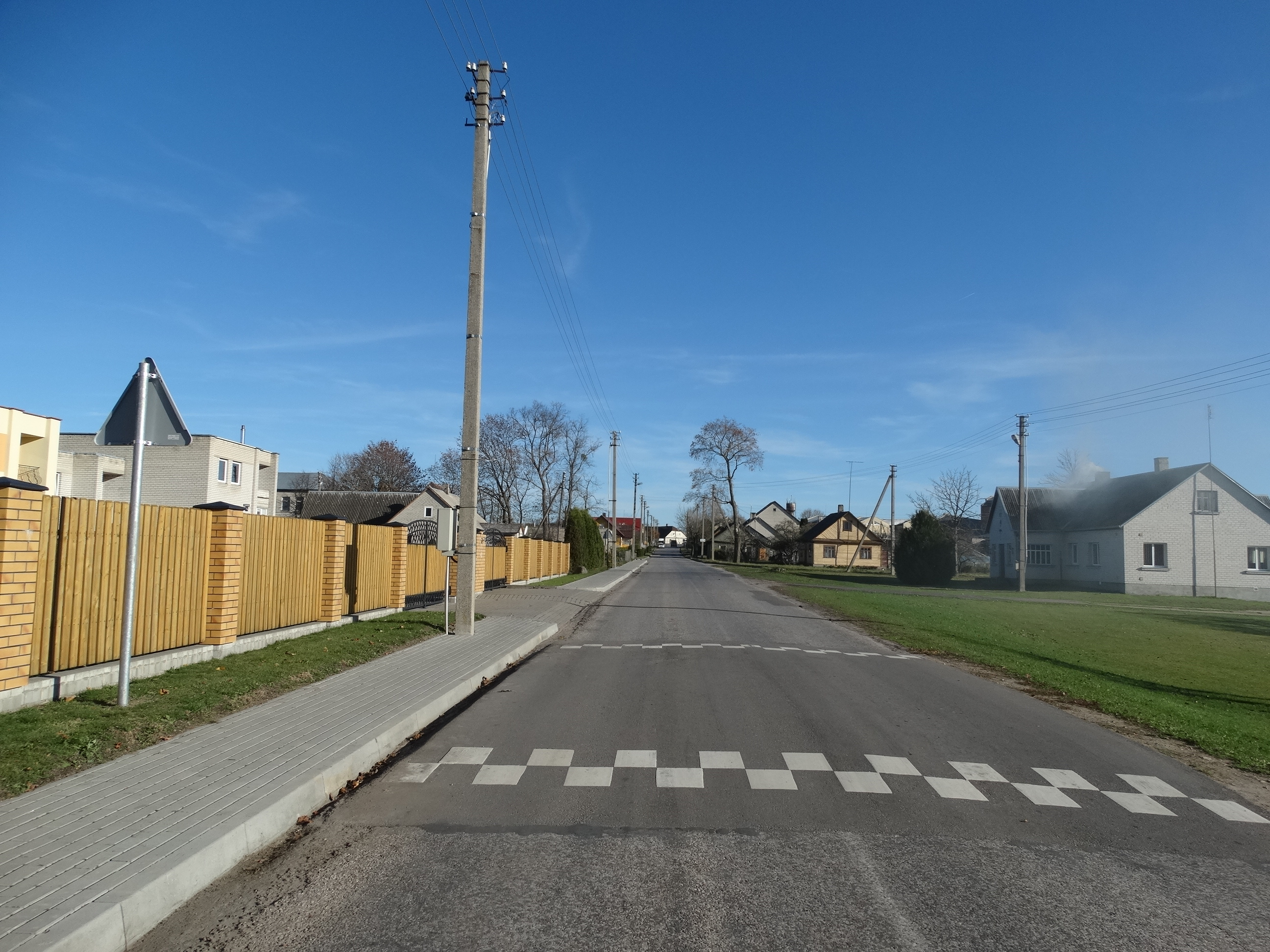 Butrimonys, Alytus district, Lithuania